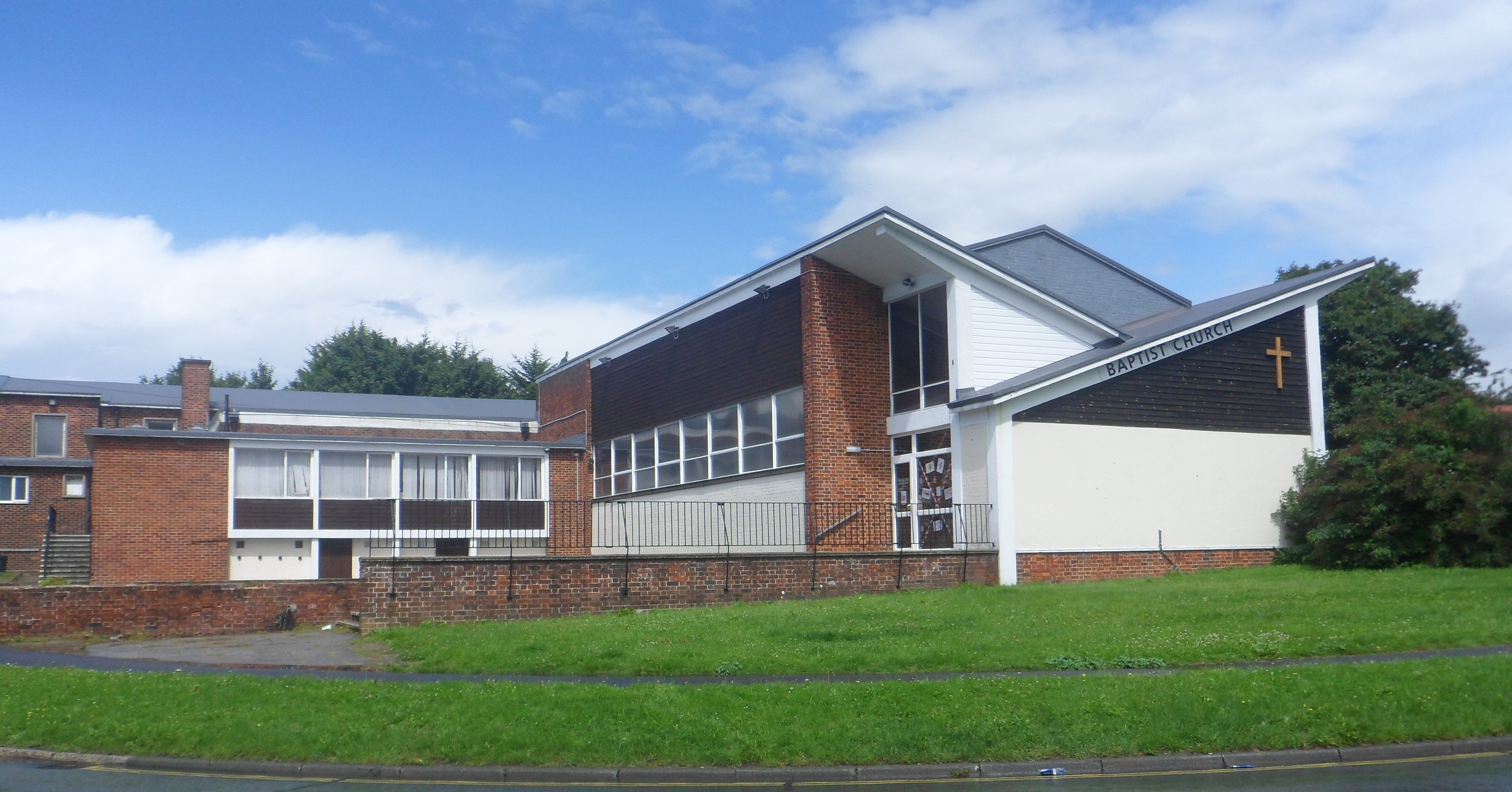 Paulsgrove Baptist Church, Woofferton Road, Paulsgrove, City of Portsmouth, England.